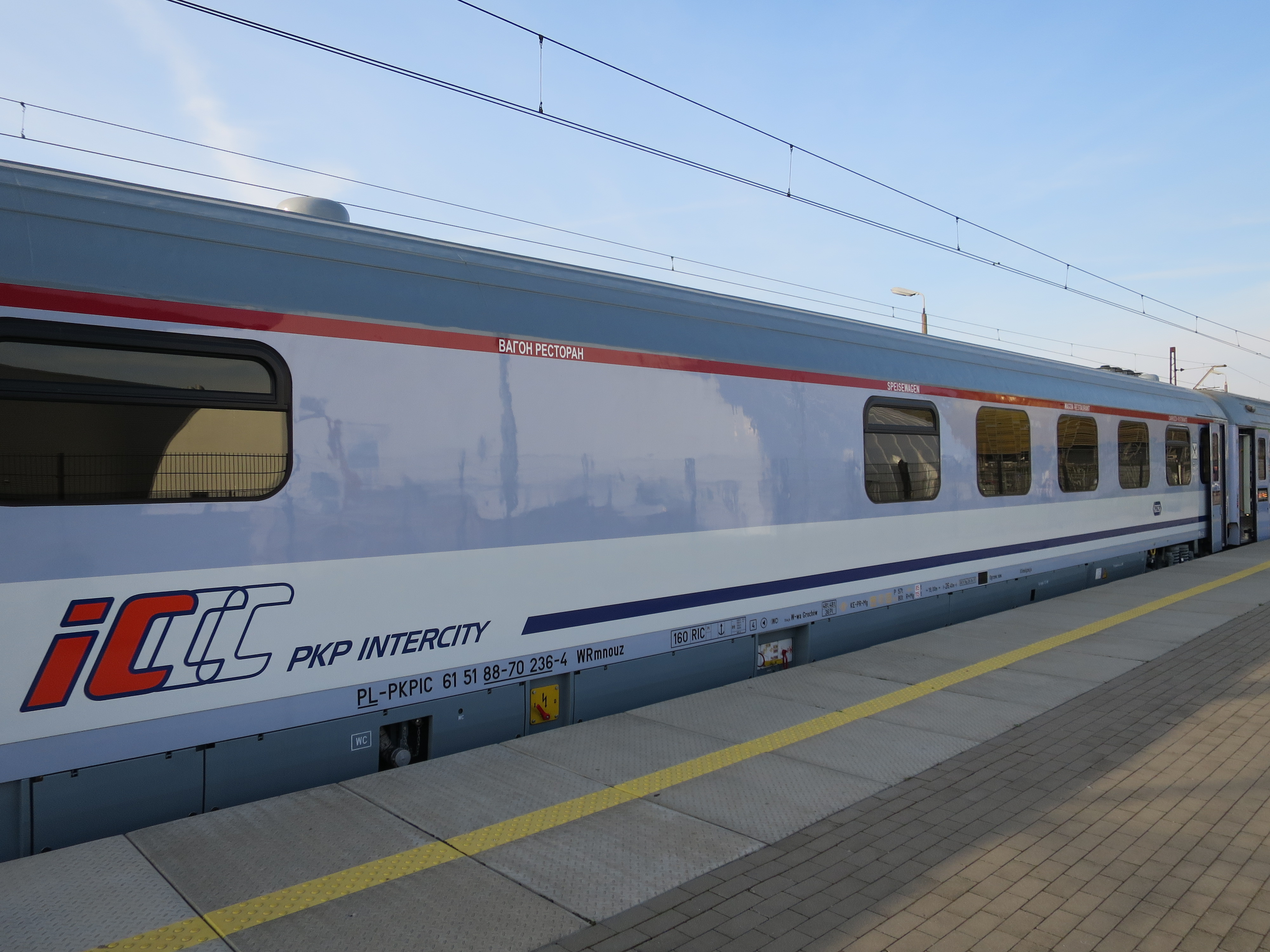 The making of this document was supported by Wikimedia Polska Association, within Wikigrant no. WG 2017-44. Wagon restauracyjny 406a